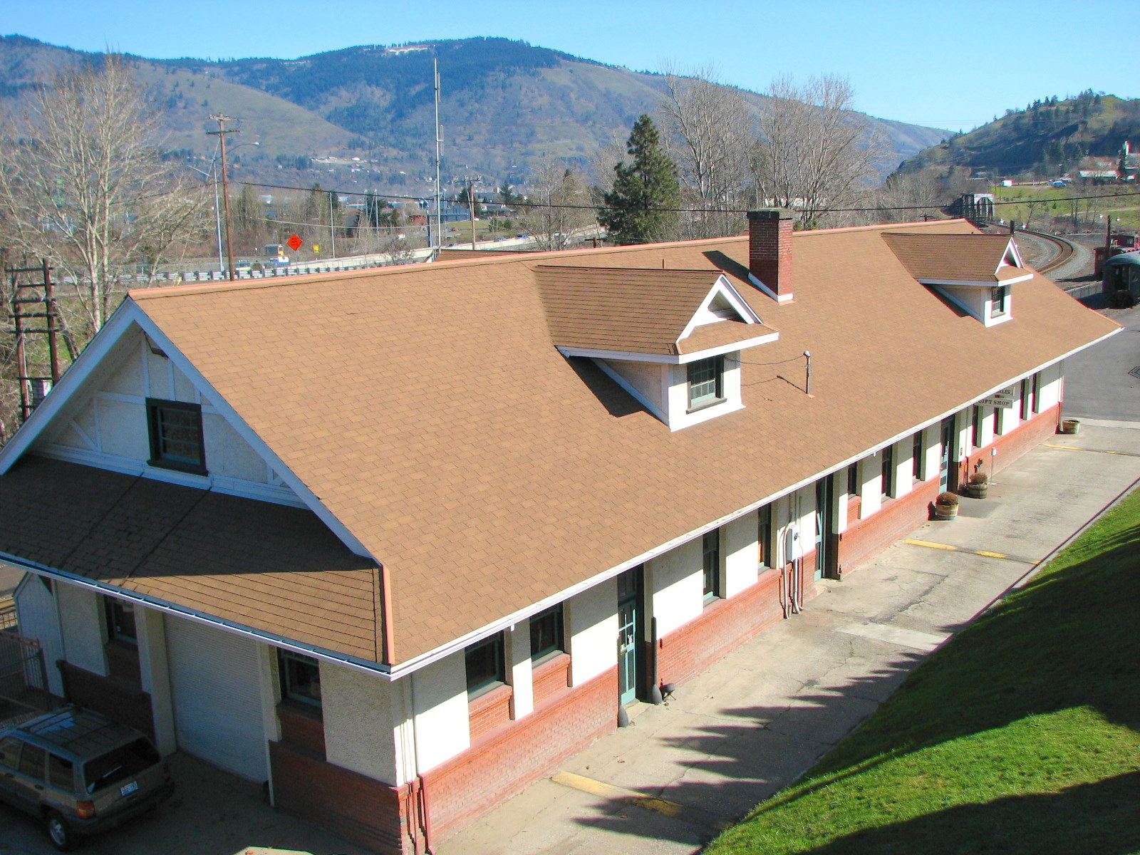 The historic Oregon–Washington Railroad and Navigation Company Passenger Station (built 1911), located at the foot of 1st Street in Hood River, Oregon, United States, is listed on the US National Register of Historic Places.